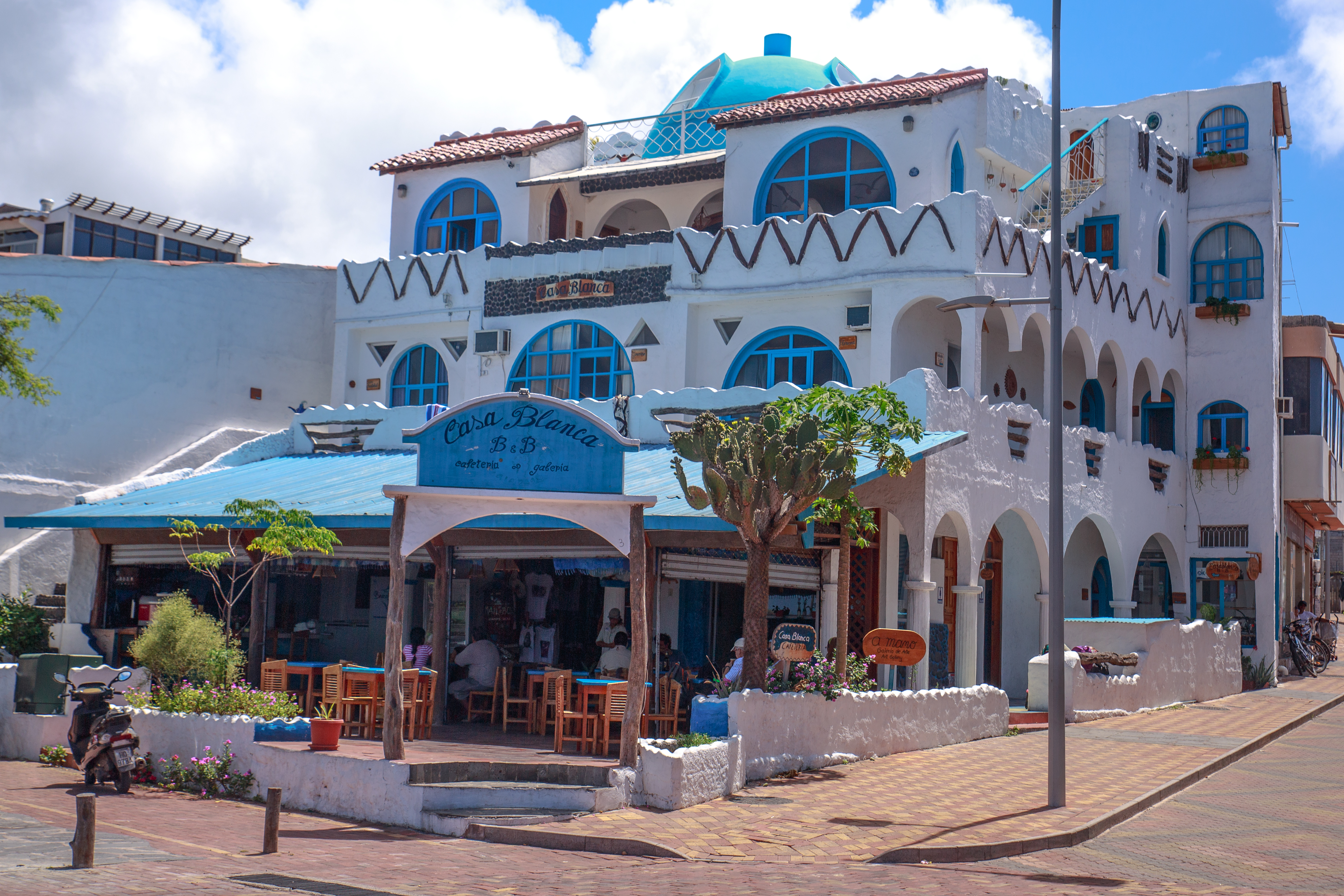 a few hours ashore at Puerto Baquerizo Moreno on Isla San Cristobal...cool Bed and Breakfast